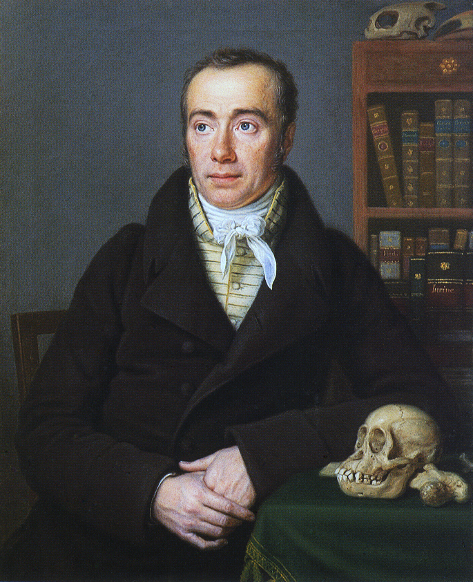 Portrait of Johann Abraham Albers (1772-1821), German physician and obstetrician